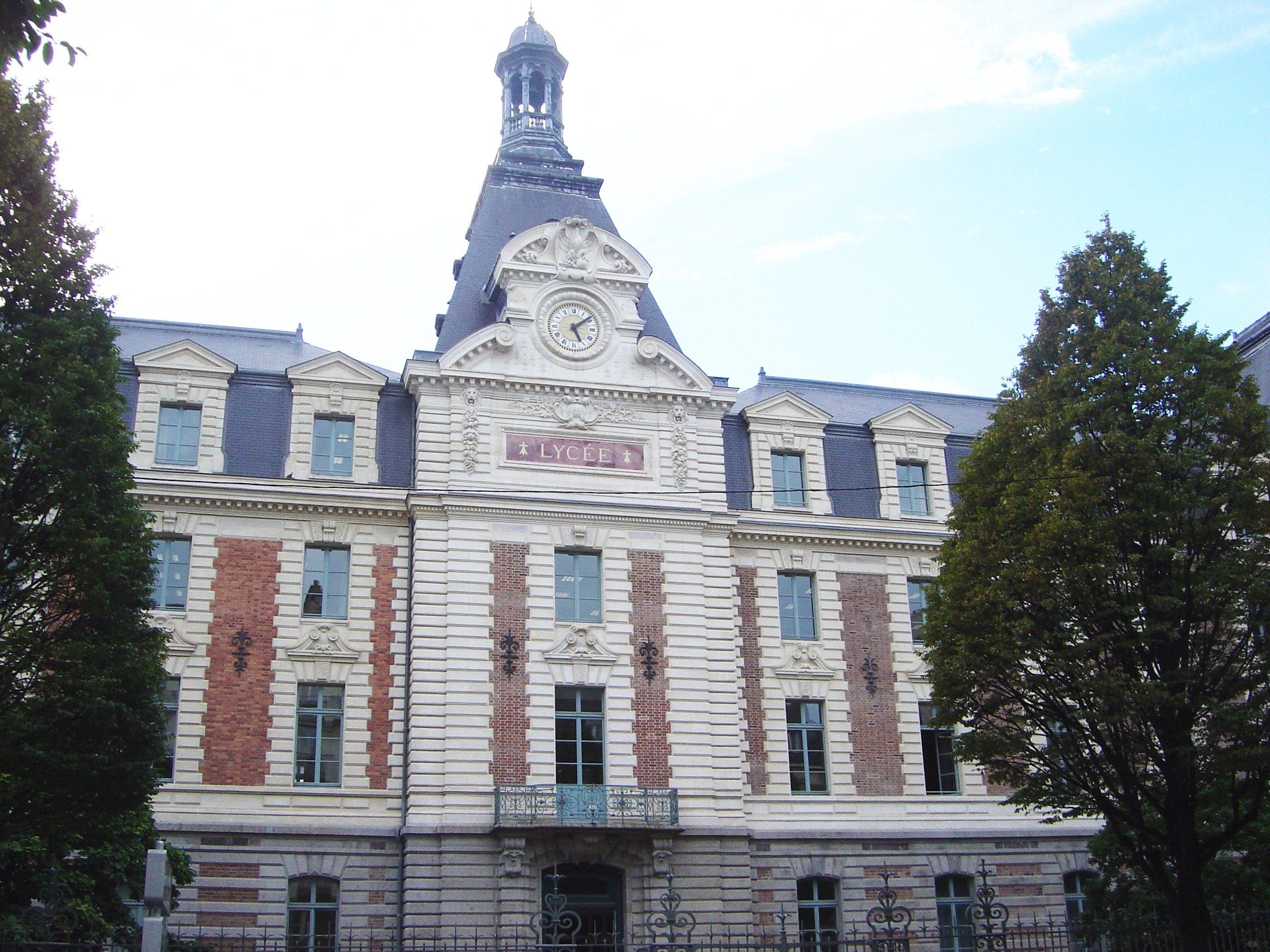 The college Emile Zola in Rennes.